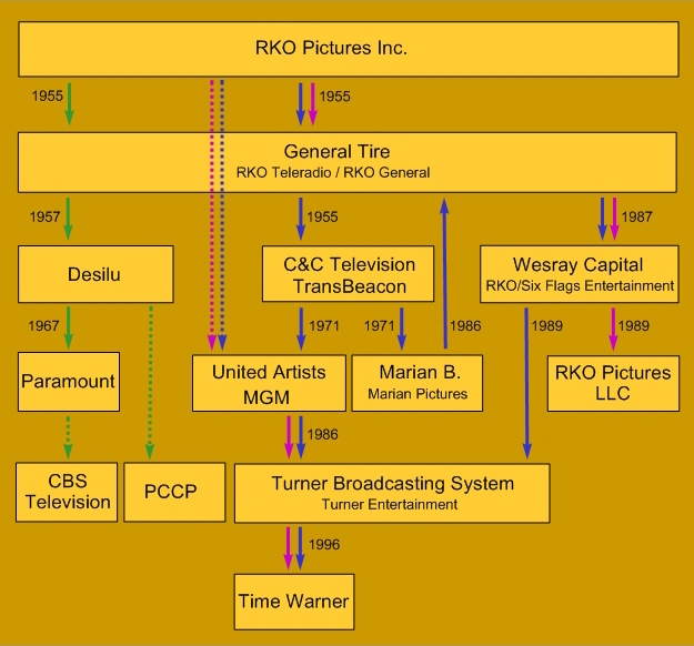 Successors and owners of RKO Pictures, Inc. (since 1955)